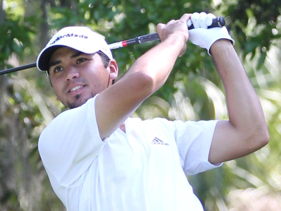 Jason Day